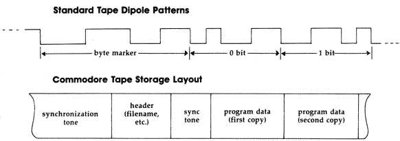 C64 Tape Dipole Patterns and Tape Storage Layout